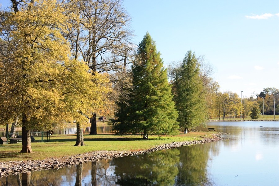 Shelby Park in Nashville, Tennessee, USA